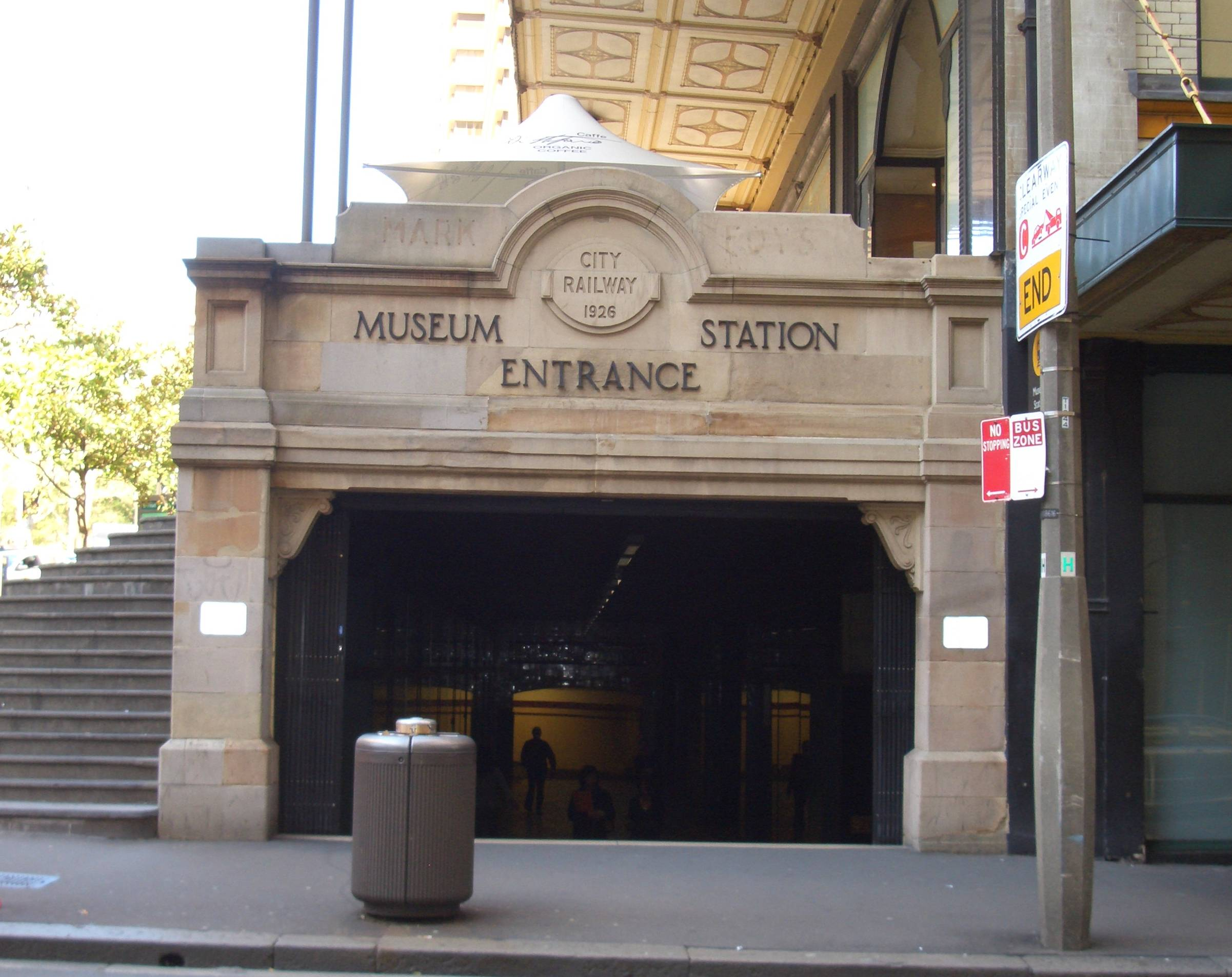 Museum railway station, Sydney